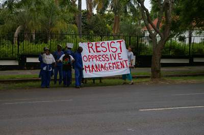 Protesters in 2006 at UKZN